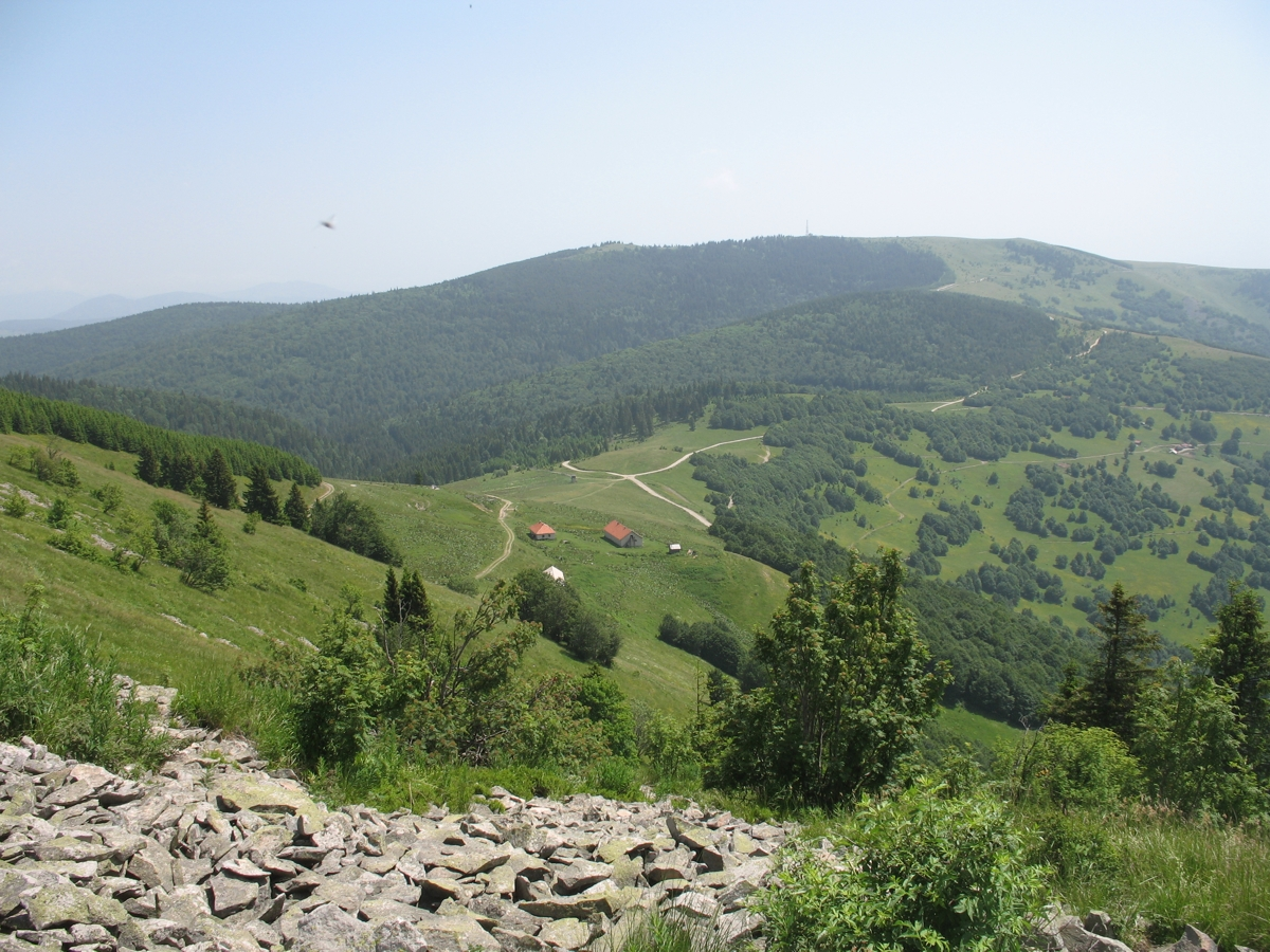 View on Jankov kamen peak (Jankos stone) 1833 m a.s.l.highest peak on Golija mountain,Sebia.